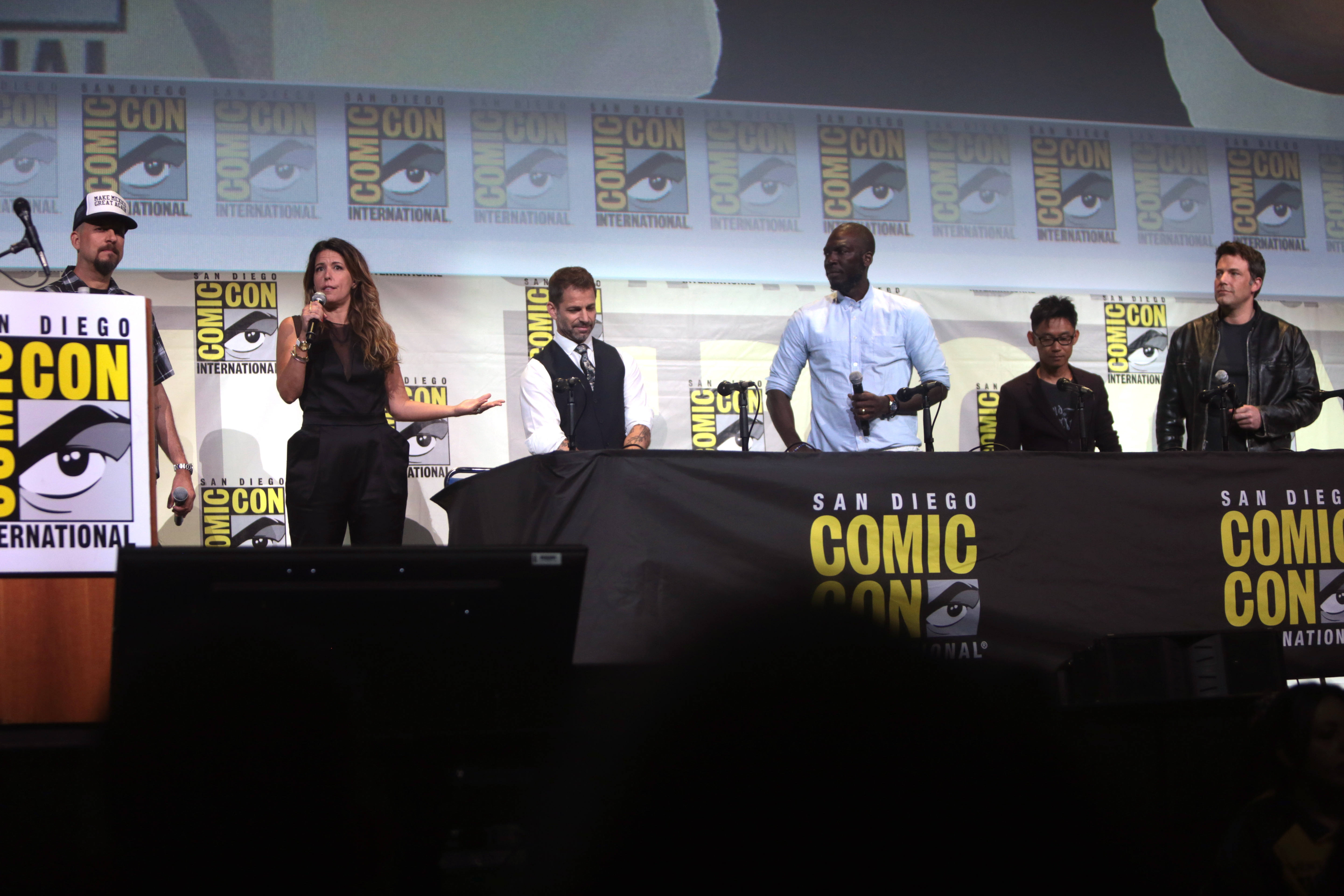 David Ayer, Patty Jenkins, Zack Snyder, Rick Famuyiwa, James Wan and Ben Affleck speaking at the 2016 San Diego Comic-Con International in San Diego, California.